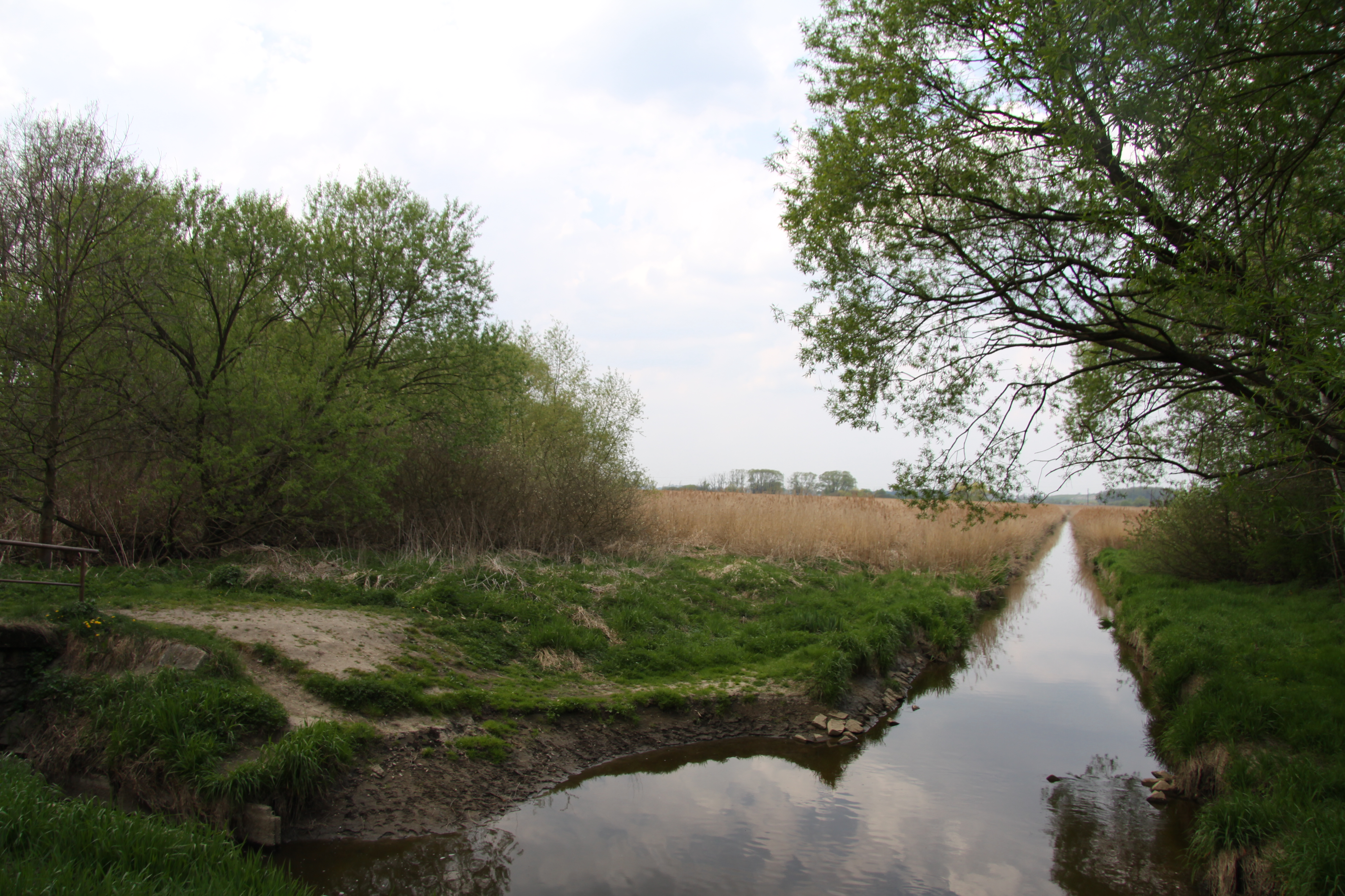 Natural reserve Mokřiny u Vomáčků near Zliv, České Budějovice District, Czech Republic - Google Maps - Google Earth